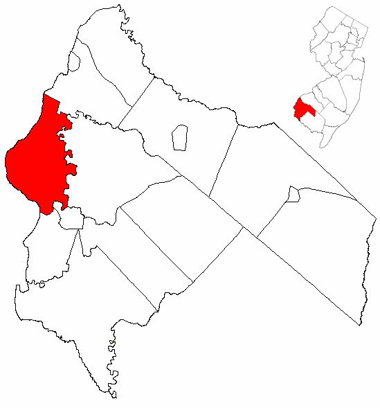 Map of Salem County highlighting Pennsville Township